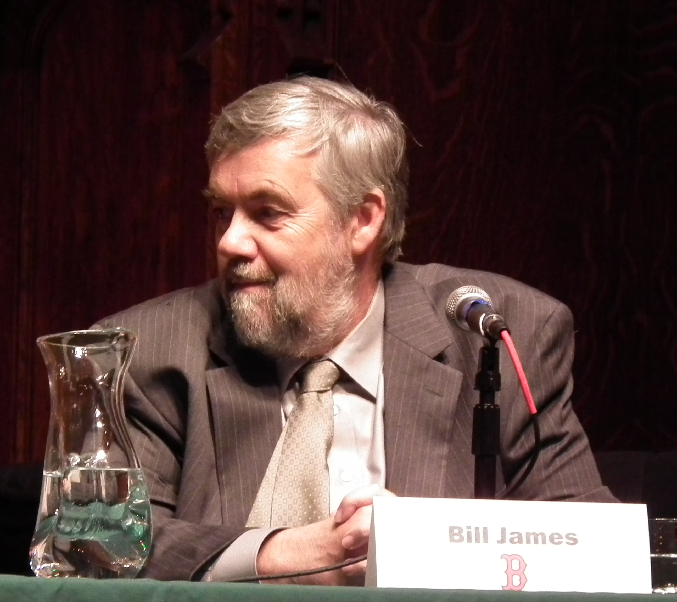 Baseball sabermetrician and Boston Red Sox executive Bill James, 2010. Photo courtesy of dishfunctional, via Flickr.